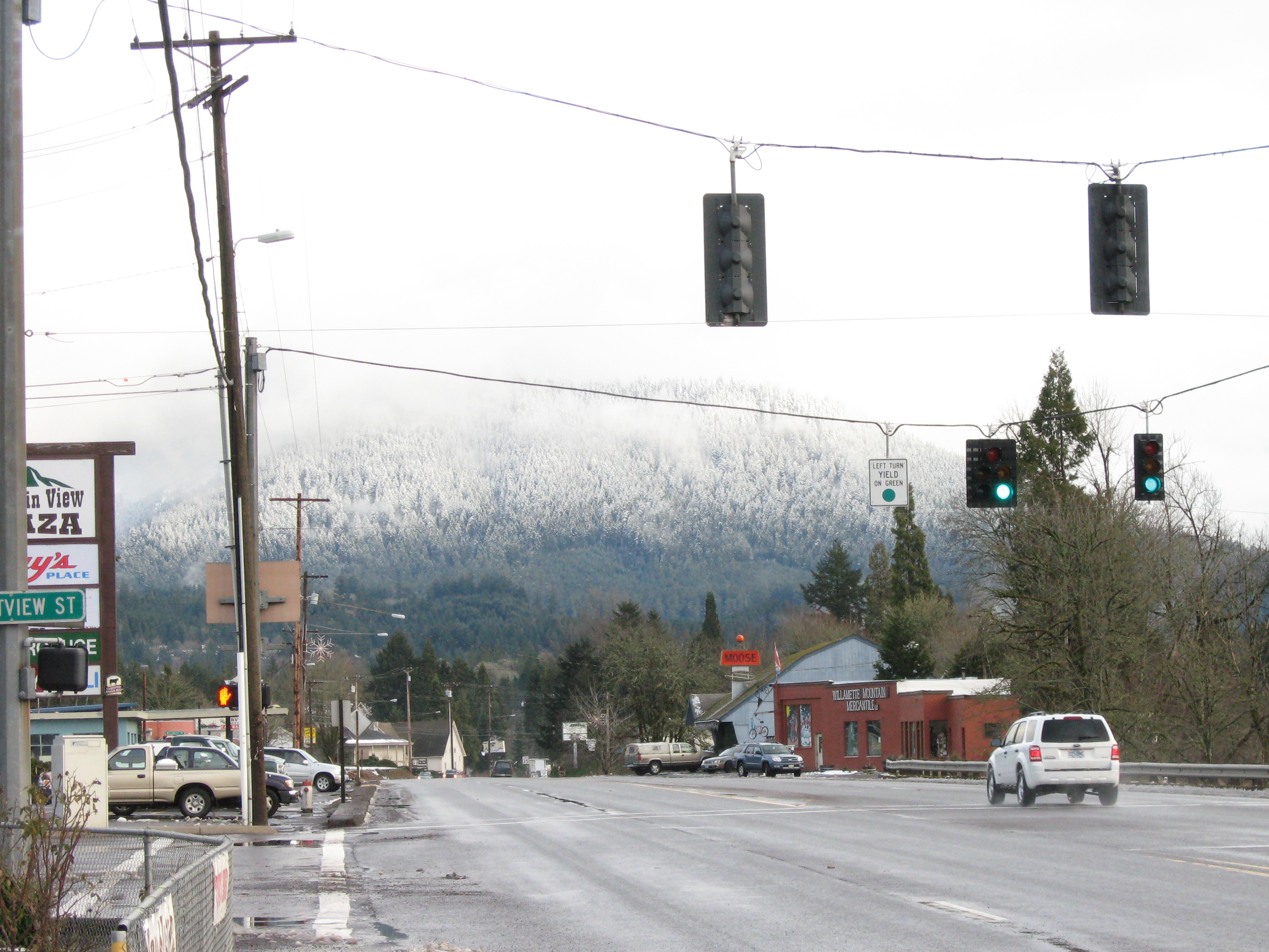 Highway 58 in Oakridge, Oregon, a city in Lane County, with snowy Cascade Range foothills in the background